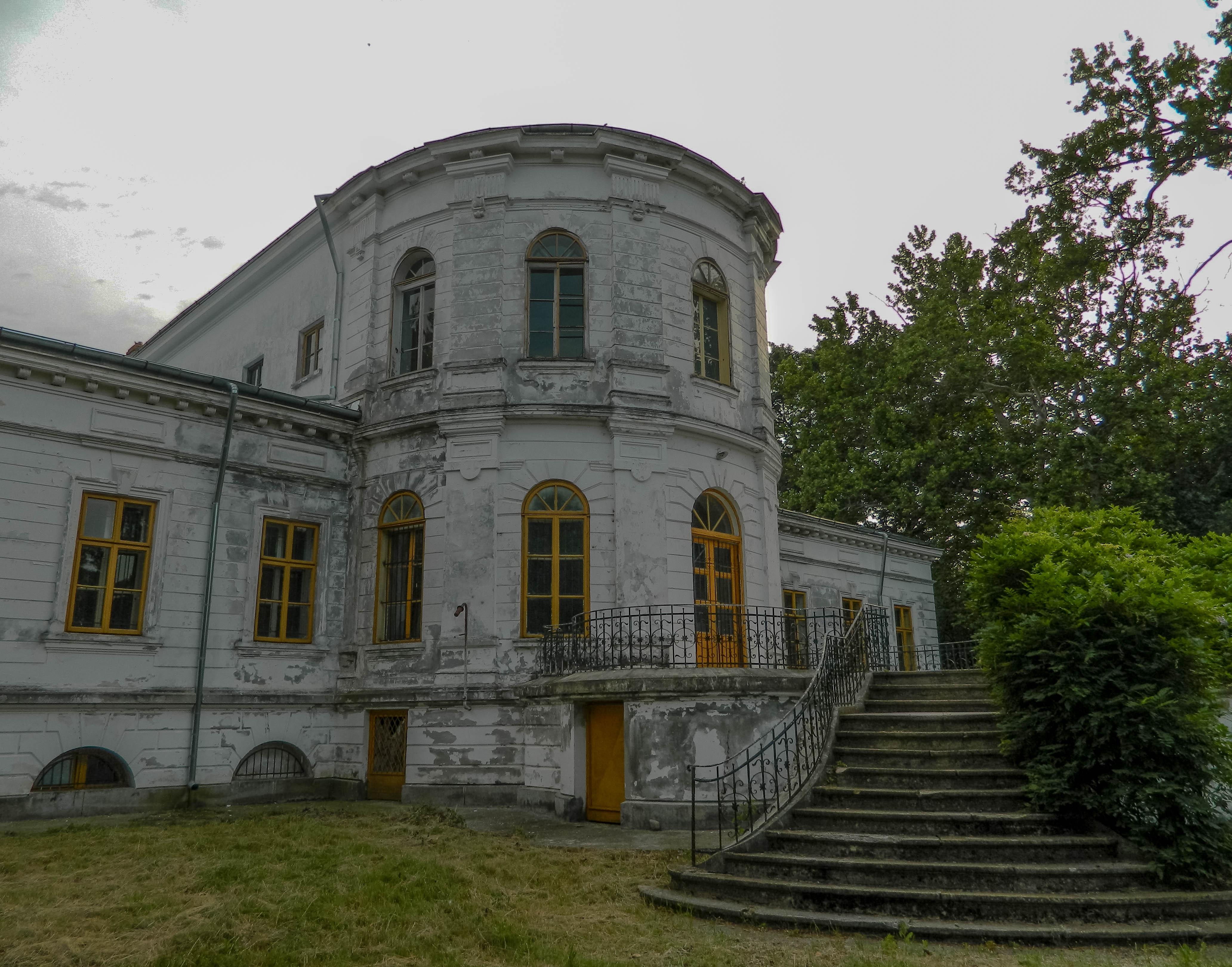 Ghica palaca, Căciulați, Ilfov, Romania